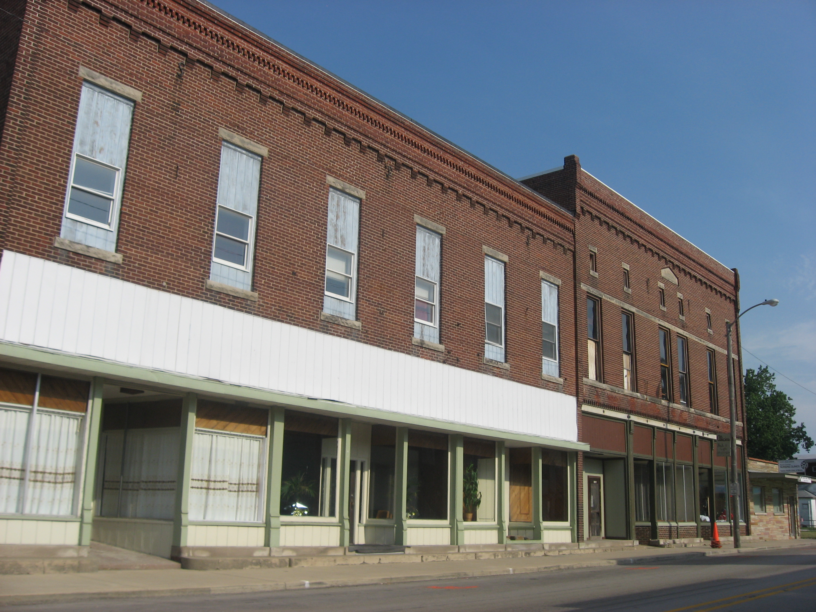 Buildings at 412 (left) and 416 (right) N. Main Street (U.S. Route 421) in Monon, Indiana, United States. Built in 1899, they are part of the Monon Commercial Historic District, a historic district that is listed on the National Register of Historic Places.